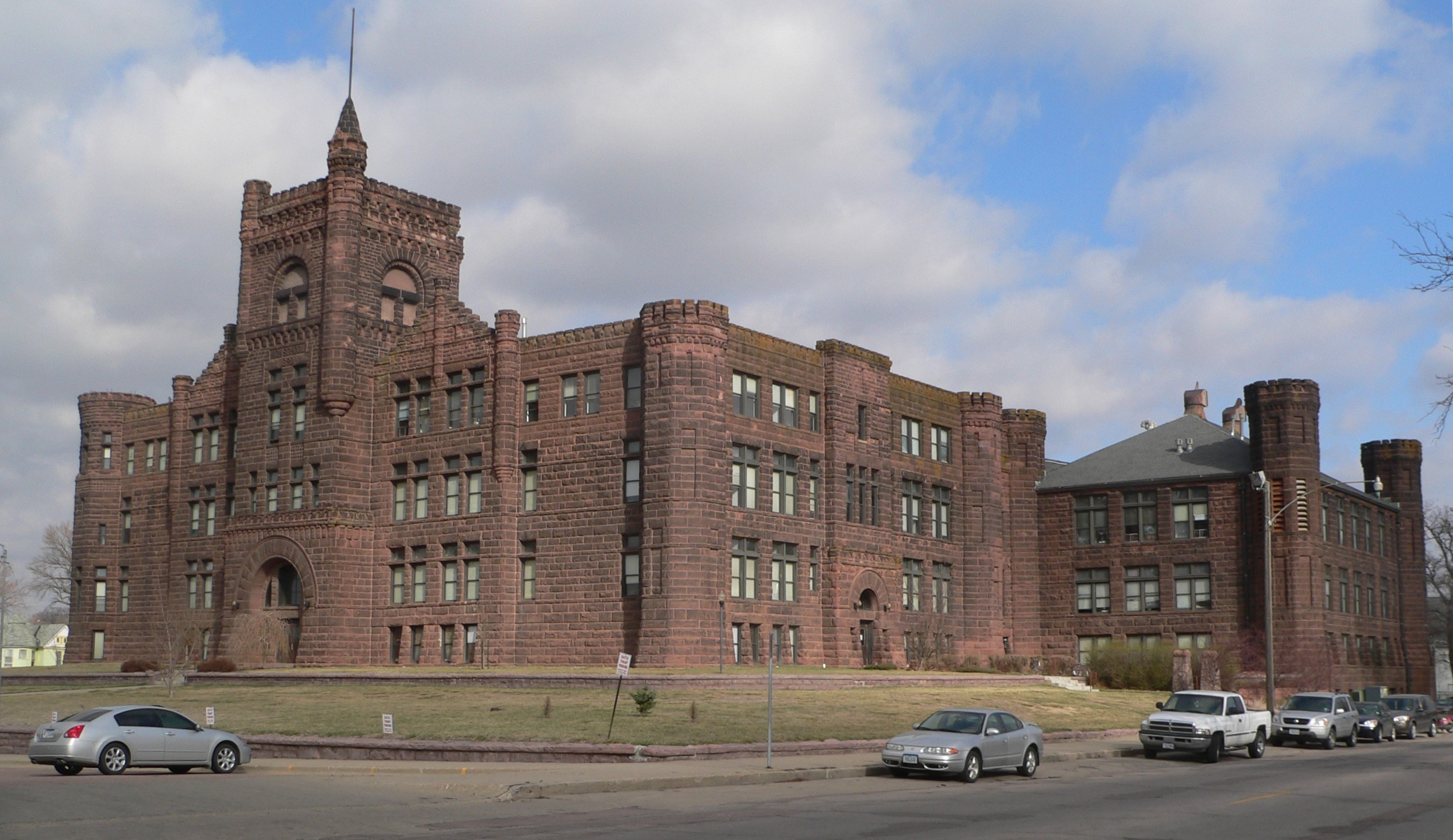 Sioux City Central High School, now Castle on the Hill Apartments, occupying the block between 12th and 13th and Nebraska and Jackson Streets in Sioux City, Iowa; seen from the southeast.